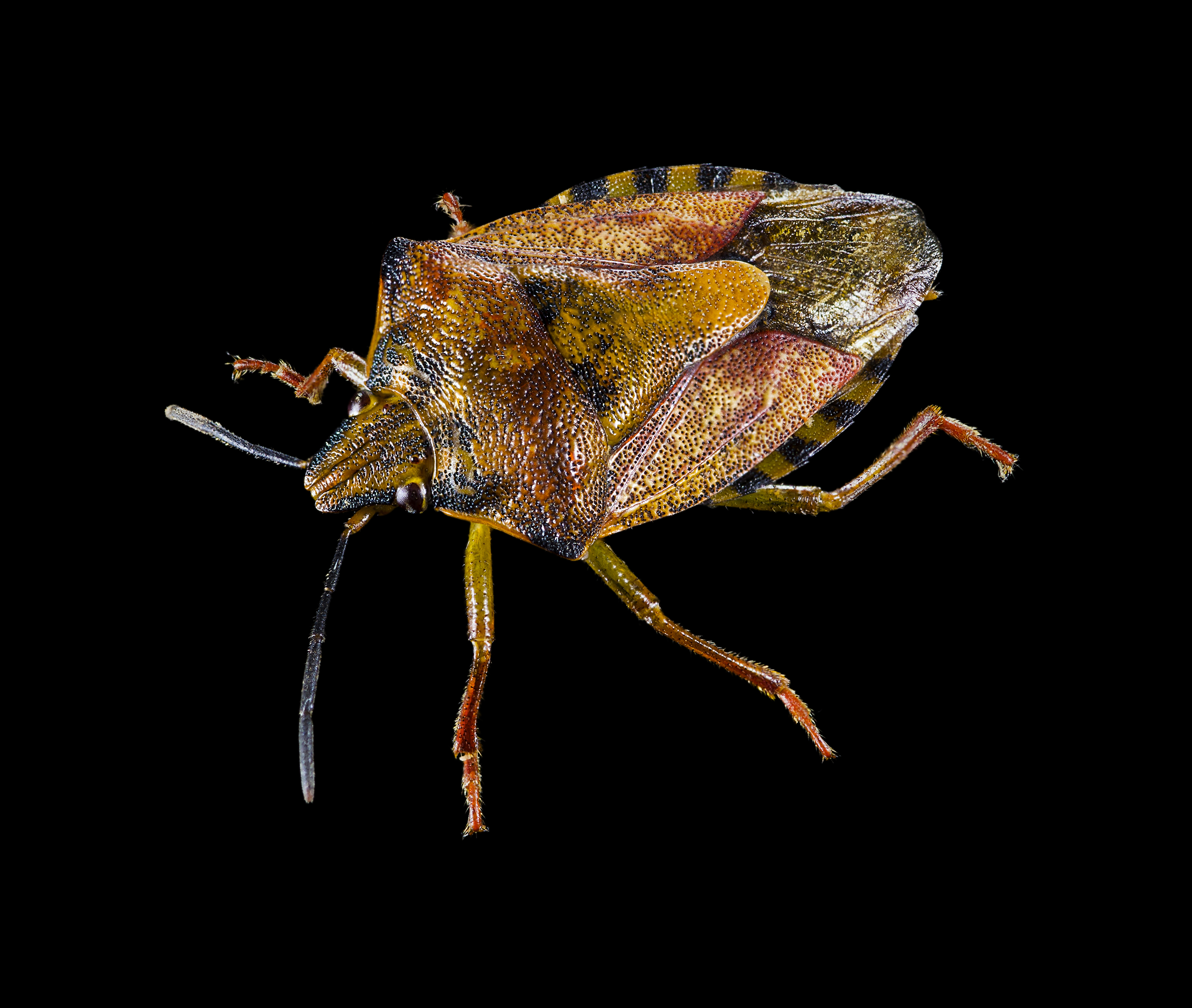 Carpocoris purpureipennis (De Geer, 1773) Locality : Fronton, Midi-Pyrénées, France Size : 10 mm